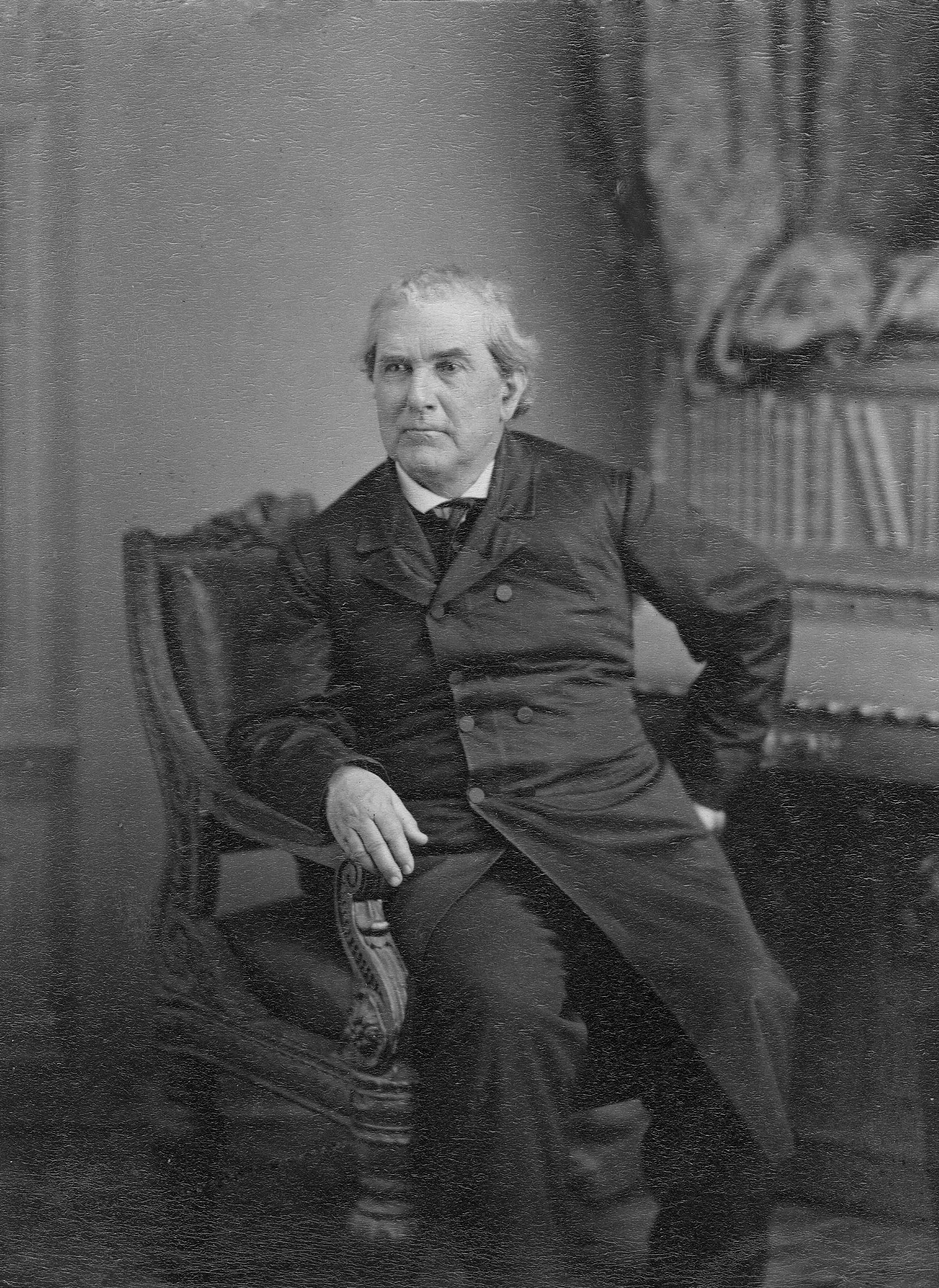 Portrait of Rev. Charles H. Stonestreet, S.J. president of Georgetown University. First published in 'Gonzaga College, an Historical Sketch: From Its Foundation in 1821, to the Solemn Celebration of Its First Centenary in 1921' (1922) on p. 63.